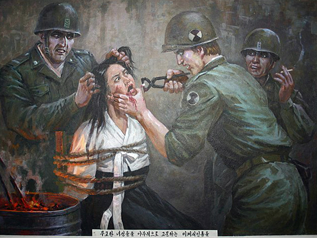 Painting in museum DPRK.